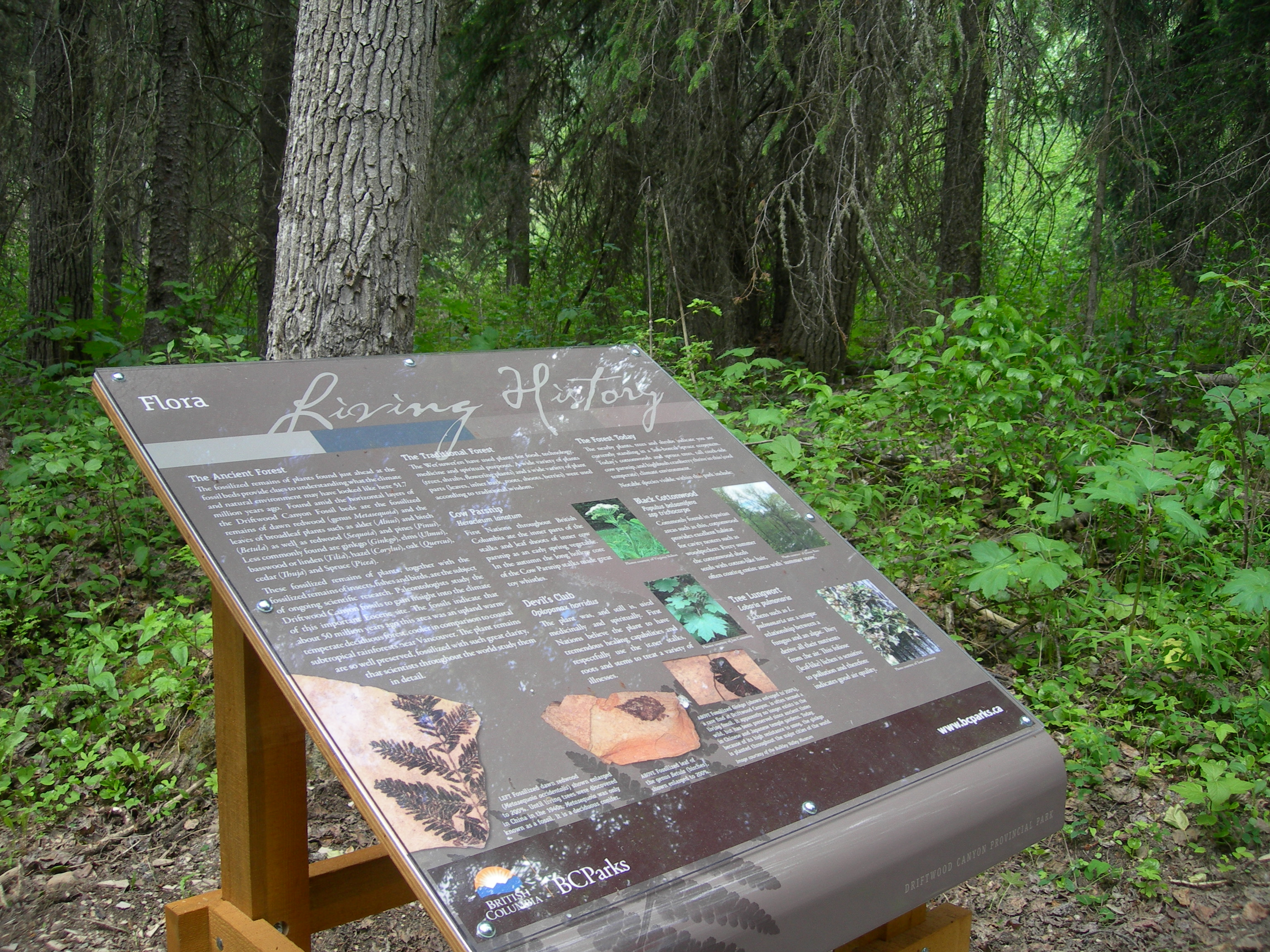 Interpretive sign installed in 2010 on trail from car park to fossil site in Driftwood Canyon Provincial Park, British Columbia, Canada.